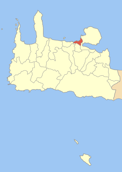 Locator map of Chania municipality (Δήμος Χανίων) in Chania prefecture (Νομός Χανίων) in Greece.